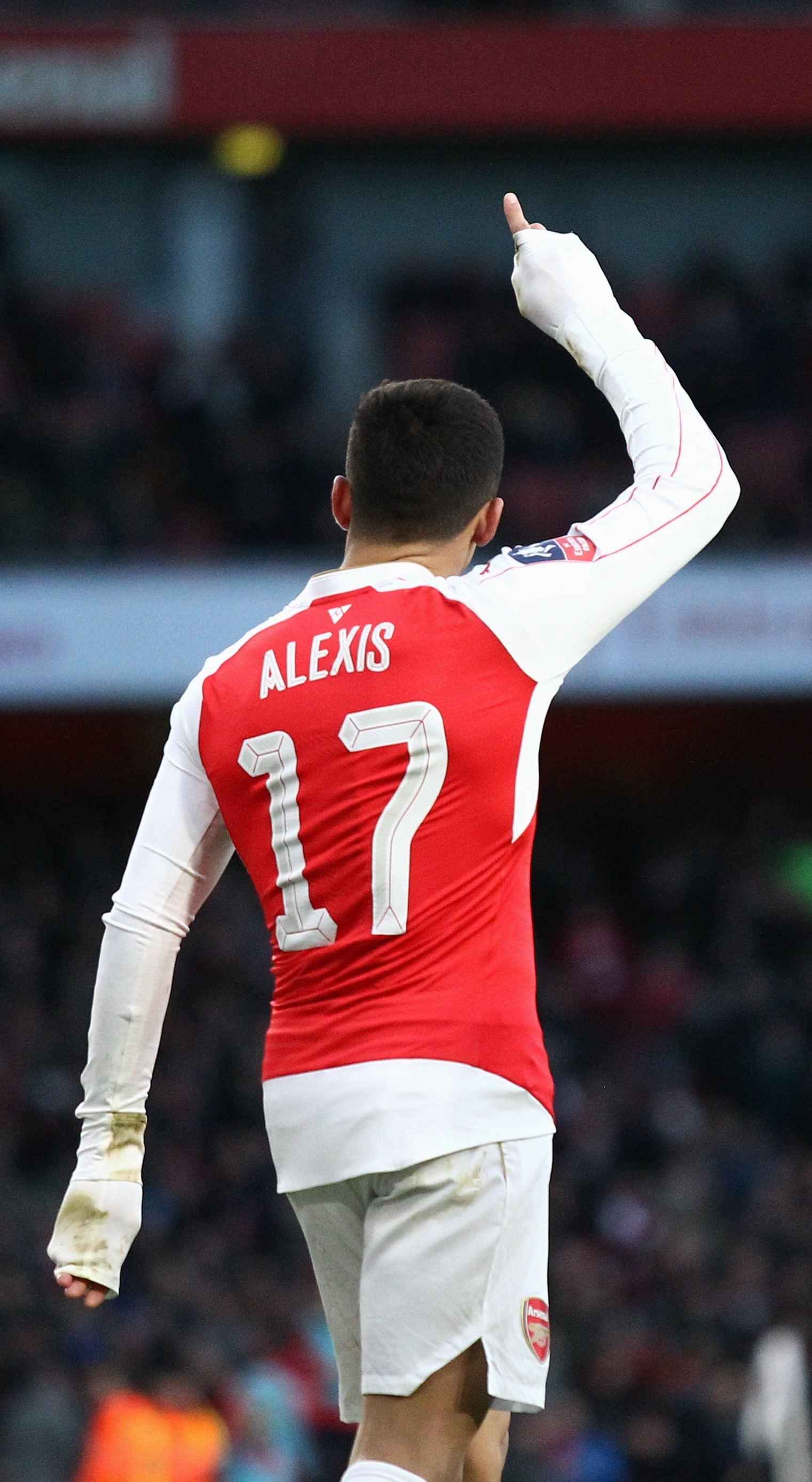 Alexis Sanchez of Arsenal celebrates his goal during the game against Burnley.